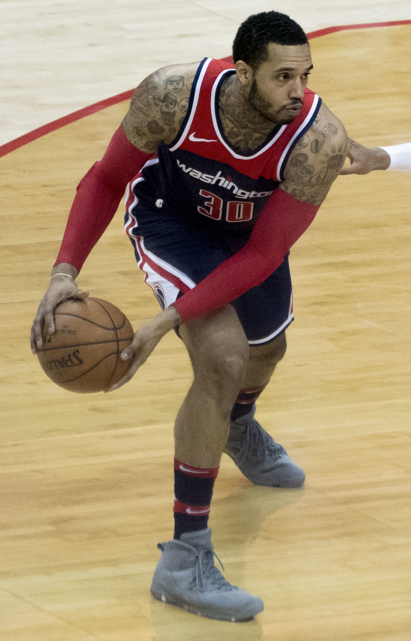 76ers at Wizards 2/25/18